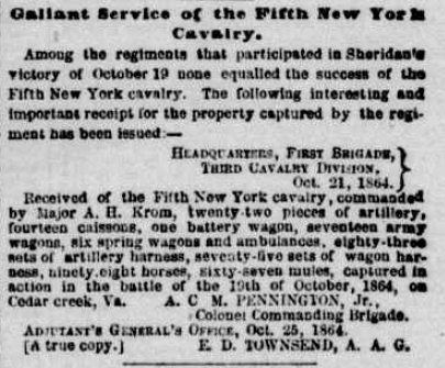 This file is a portion of a newspaper article from the New York Herald published November 11, 1864, on page 4. It can be found in the Library of Congress Reading Room here. It describes the items captured by the 5th New York Cavalry at the Battle of Cedar Creek (Virginia) during the American Civil War.